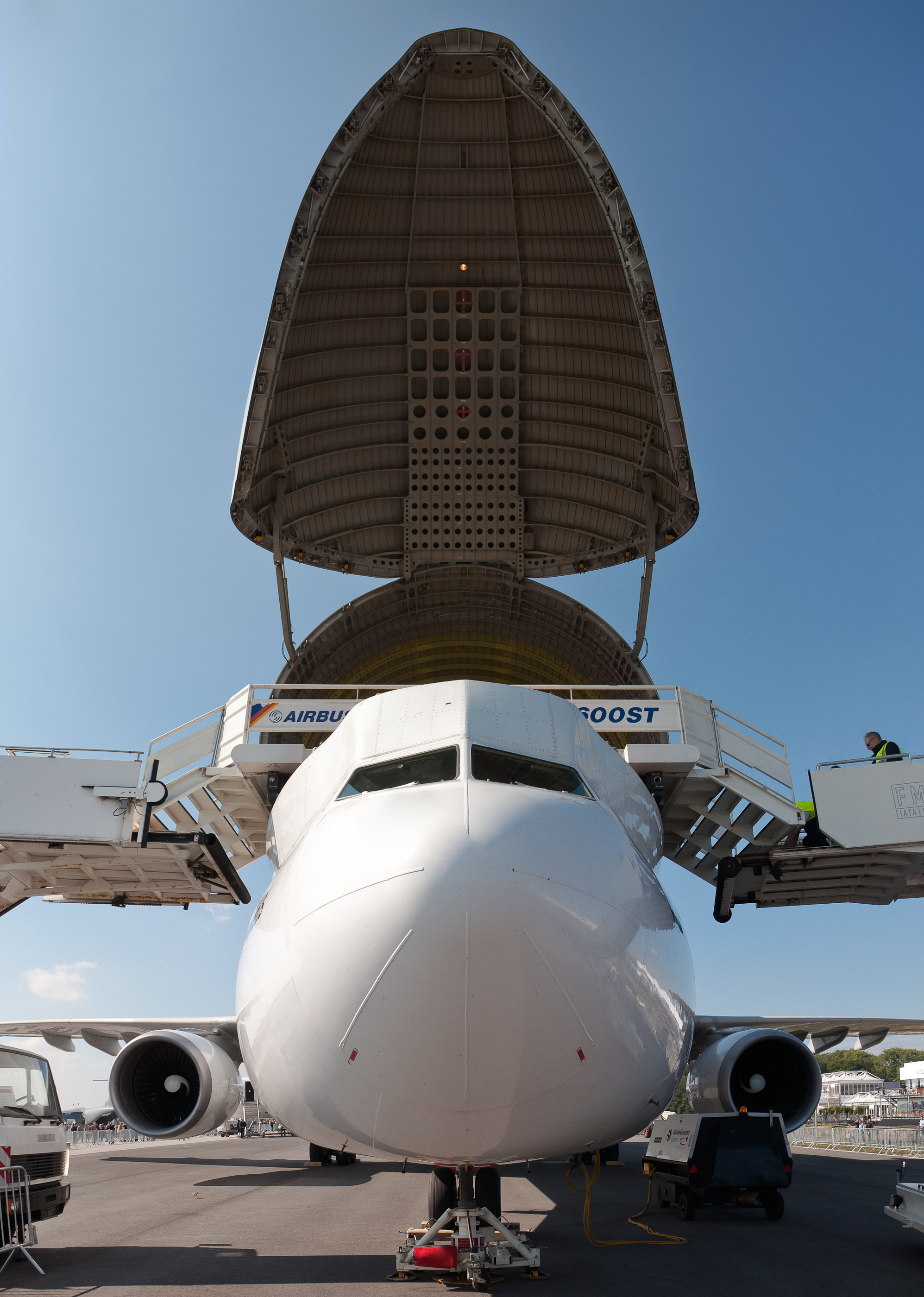 Airbus A300B4-608ST Super Transporter Beluga 3 (reg. F-GSTC, c/n 765) at of ILA Berlin Air Show 2012.